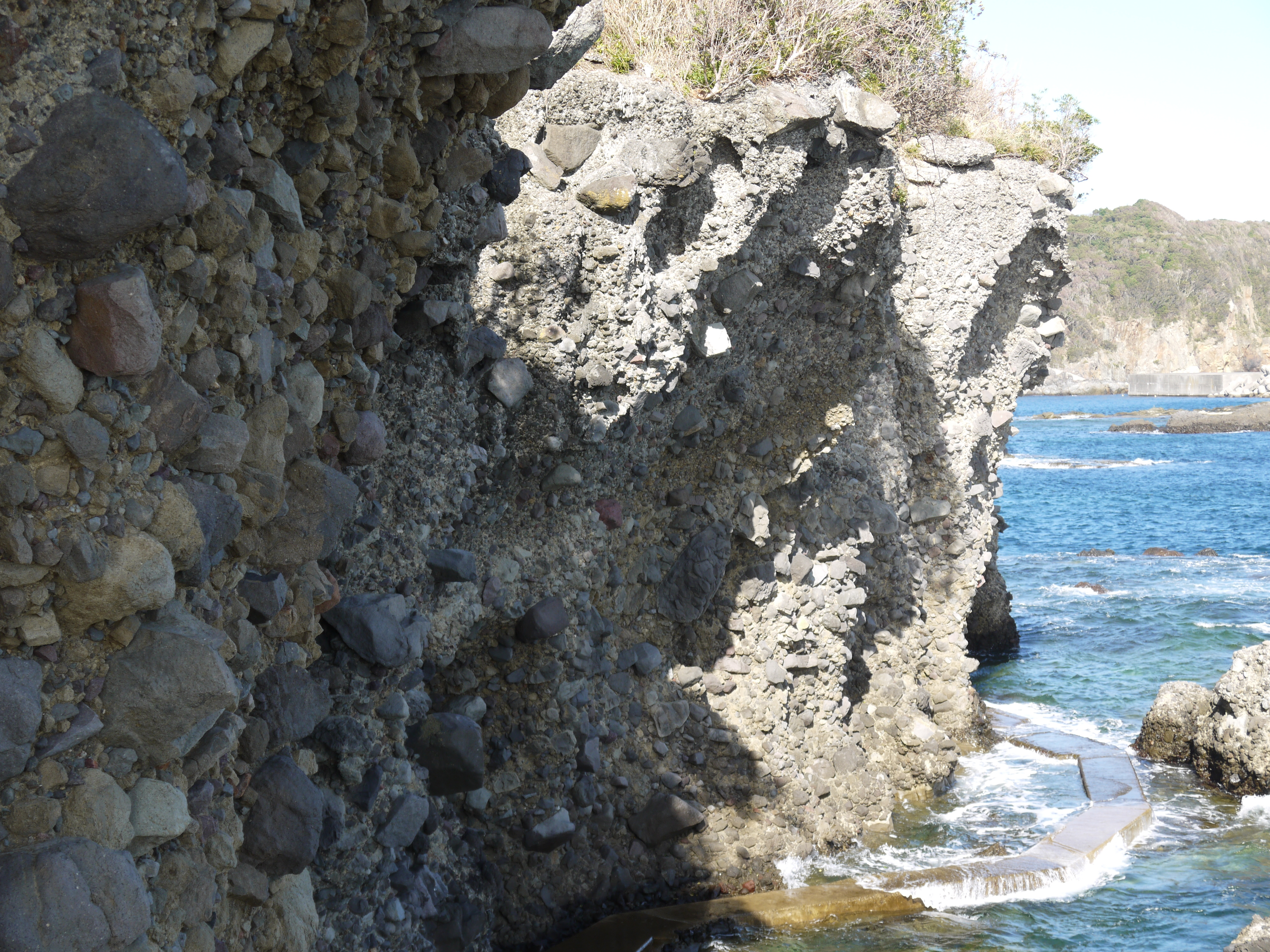 Rocks of Ebisujima (Ebisu Island) in Simoda, Shizuoka Prefecture, Japan.